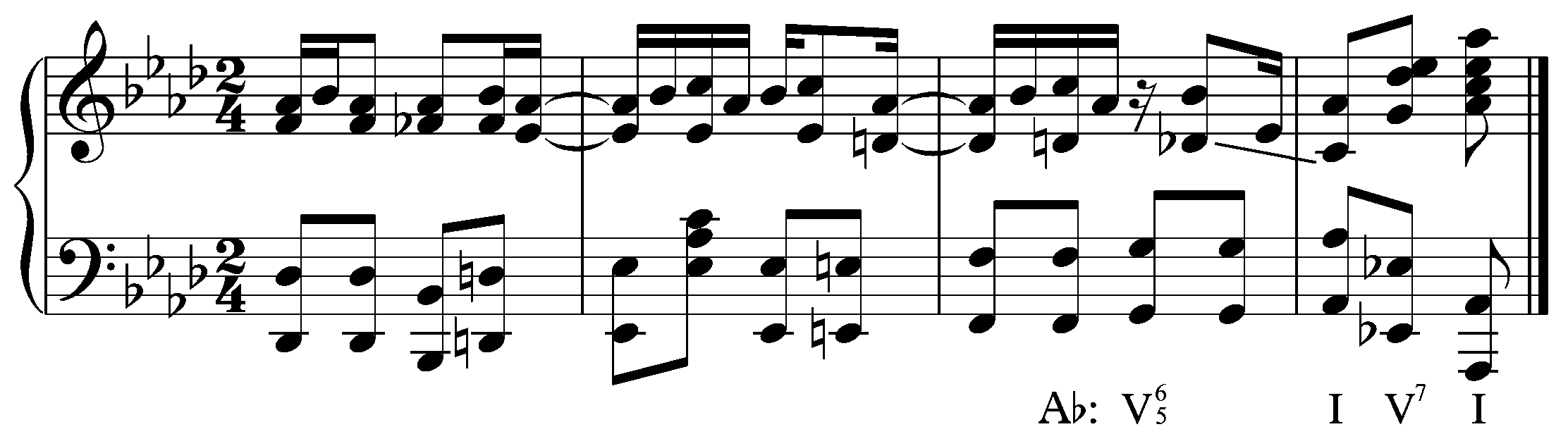 Maple Leaf Rag seventh chord resolution The seventh in a seventh chord normally resolves downwards by half-step: B ♭ down to A♭ (whole-step) E♭ stays at E♭ D♭ down to C♮ (half-step) G♮ up to A♭